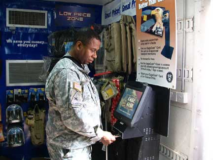 A US soldier uses an EagleCash kiosk